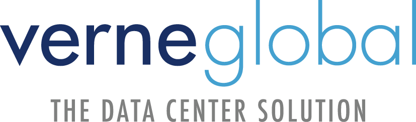 Verne Global corporate logo